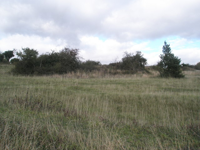 Chalk grasslands on Portsdown Hill